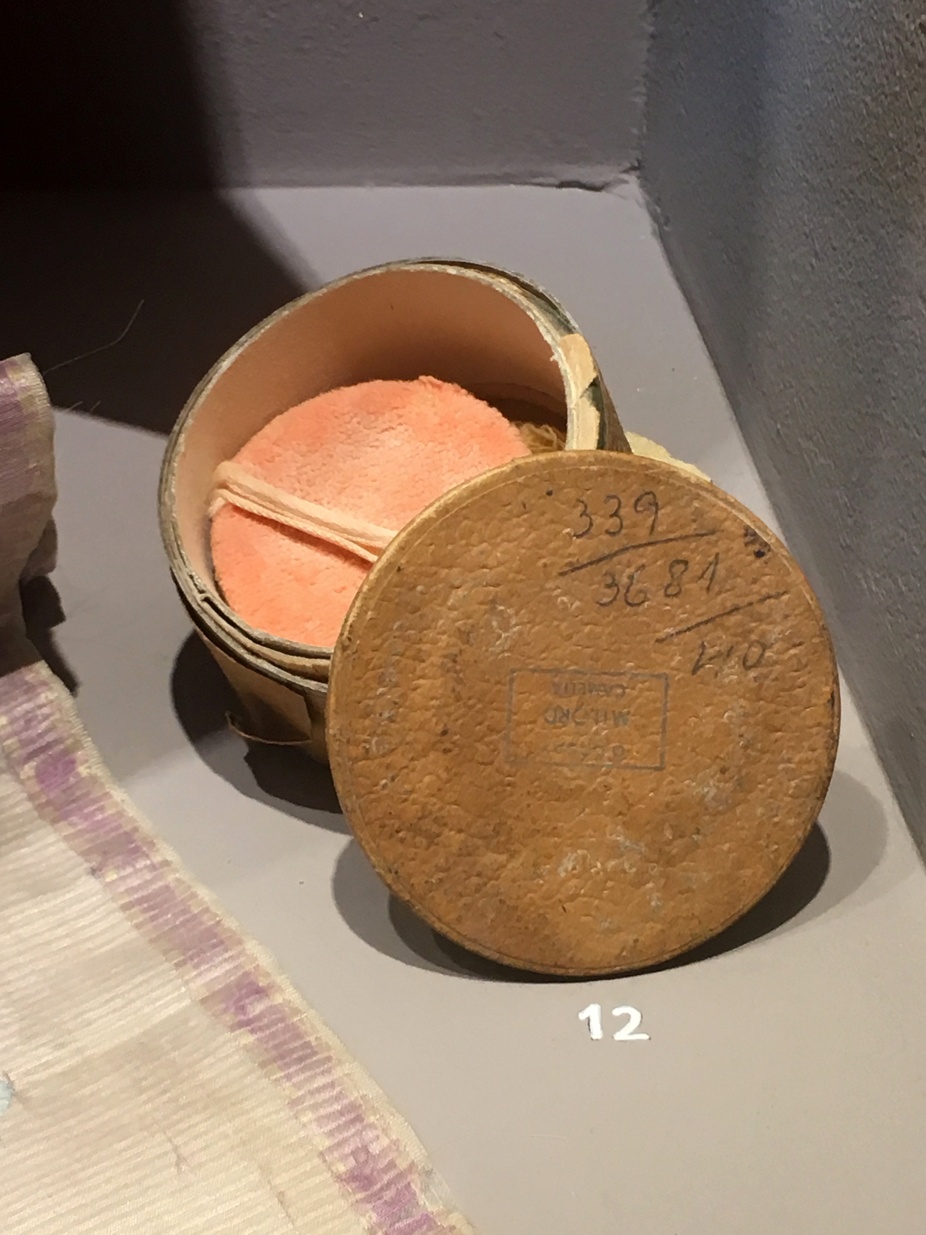 The box in which the powder was kept. They were popular in the late 19th century and early 20th century.